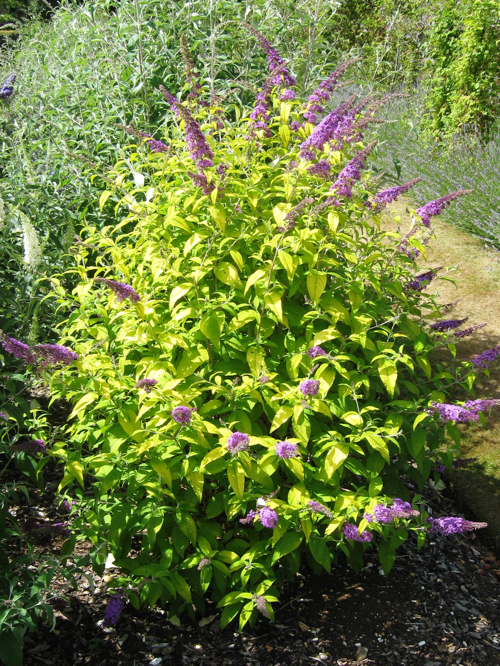 Photo of Buddleja 'Buddma' = MOONSHINE taken at Longstock Park nursery, UK